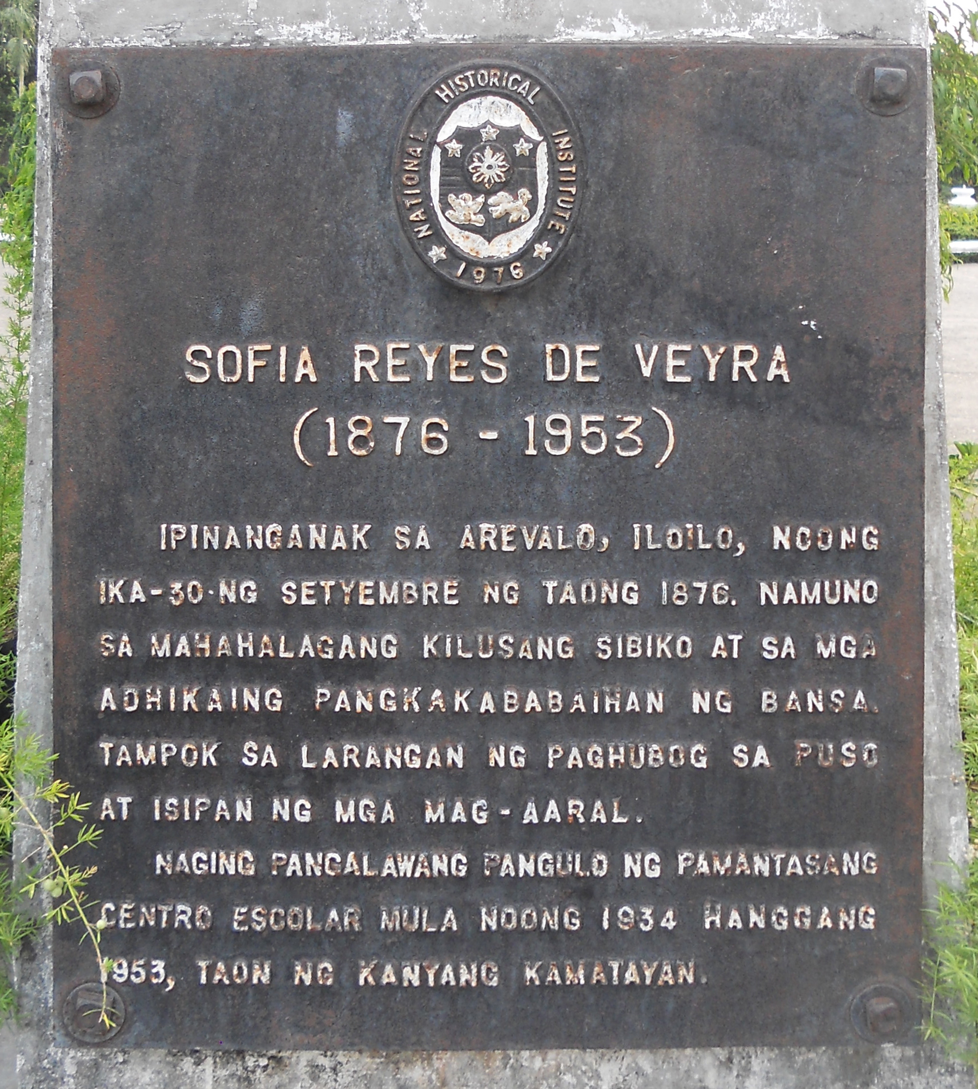 Sofia Reyes de Veyra historical marker